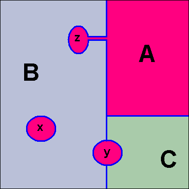 Political geography topics illustrations... Enclave, Exclave et. al.